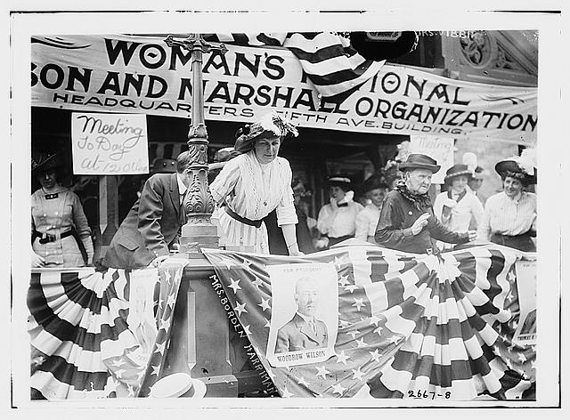 Daisy Harriman addresses a Democratic rally for Woodrow Wilson in Union Square, New York City